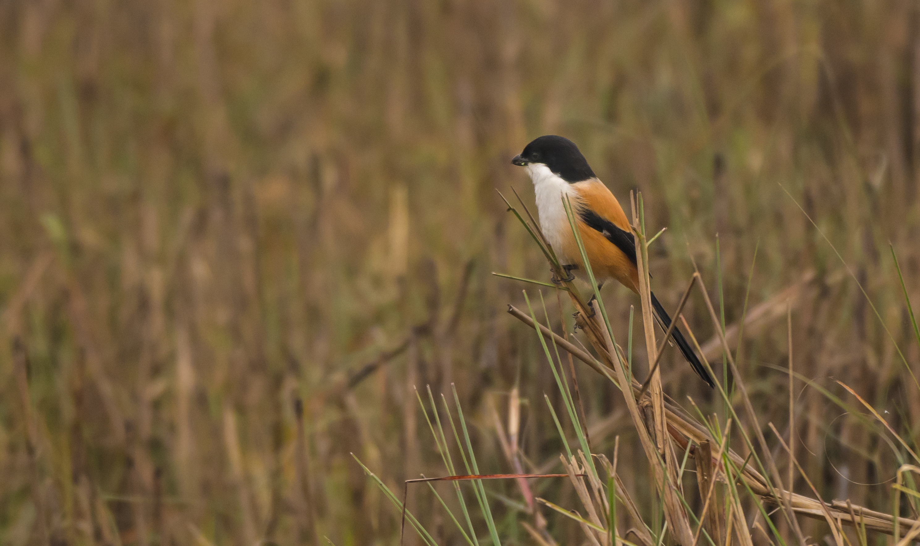 Long-tailed Shrike saw in uttara, bangladesh.